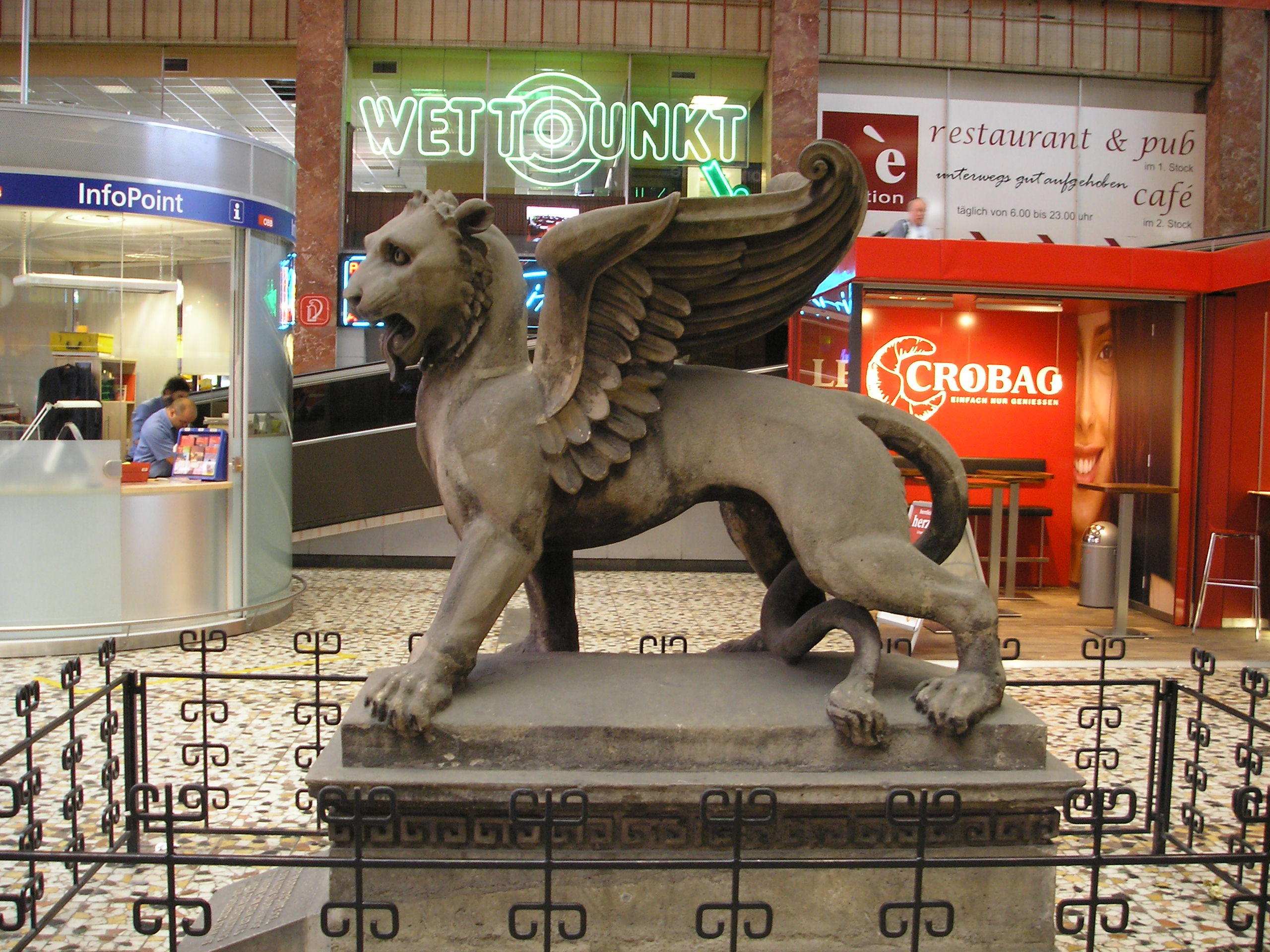 Lion statue of St.Mark, symbol of Venice. Only remaining statue of the old Südbahnhof that was torn down after World War II. Located in the hall of the post-war Südbahnhofand later in the new Hauptbahnhof.